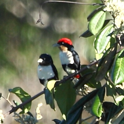 Black-girdled Barbet (couple) at Alta Floresta - MT - Brazil